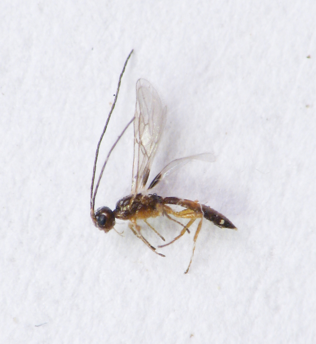 Braconid wasp, Heterospilus eurostae, male, from goldenrod round gall. Size: Less than 2 mm. Horsham, Montgomery County, Pennsylvania, USA.